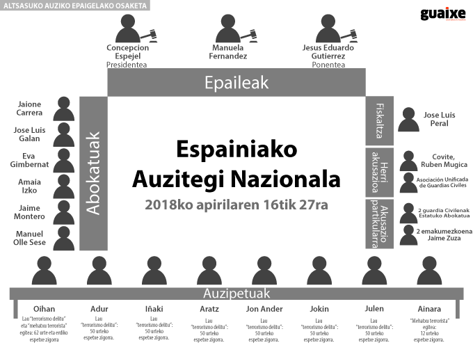 Make-up of the court in the Altsasu incident trial, April 2018